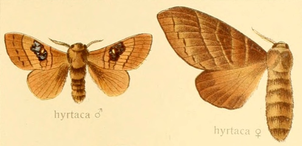 Metanastria hyrtaca Cramer, 1782